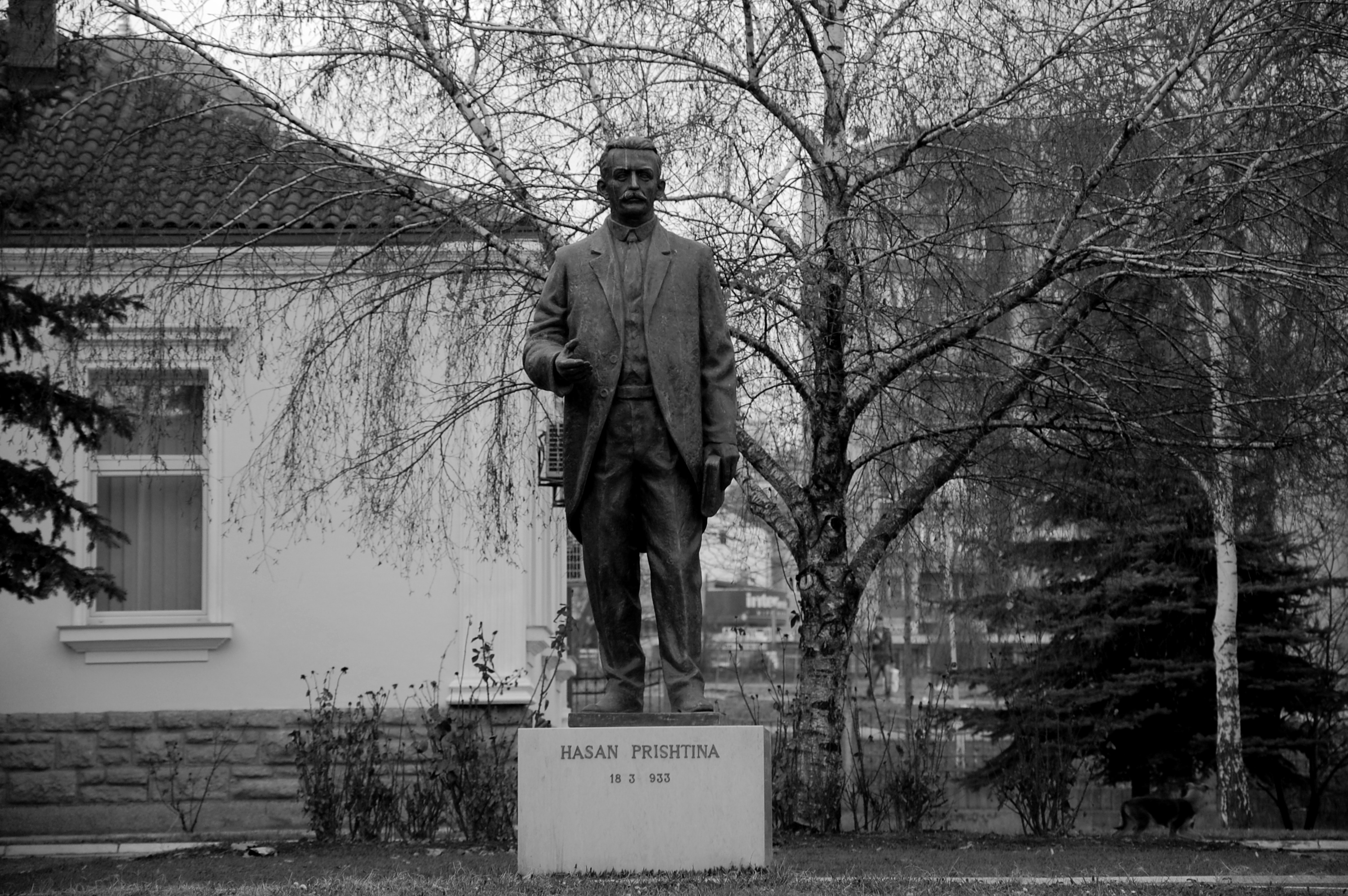 Prishtine